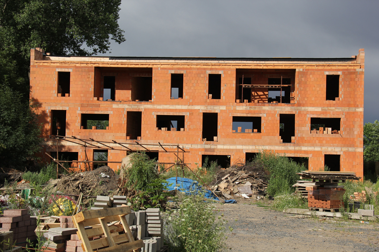 A photo of the REGI Base Foundation building being constructed in Svémyslice, Czech Republic.